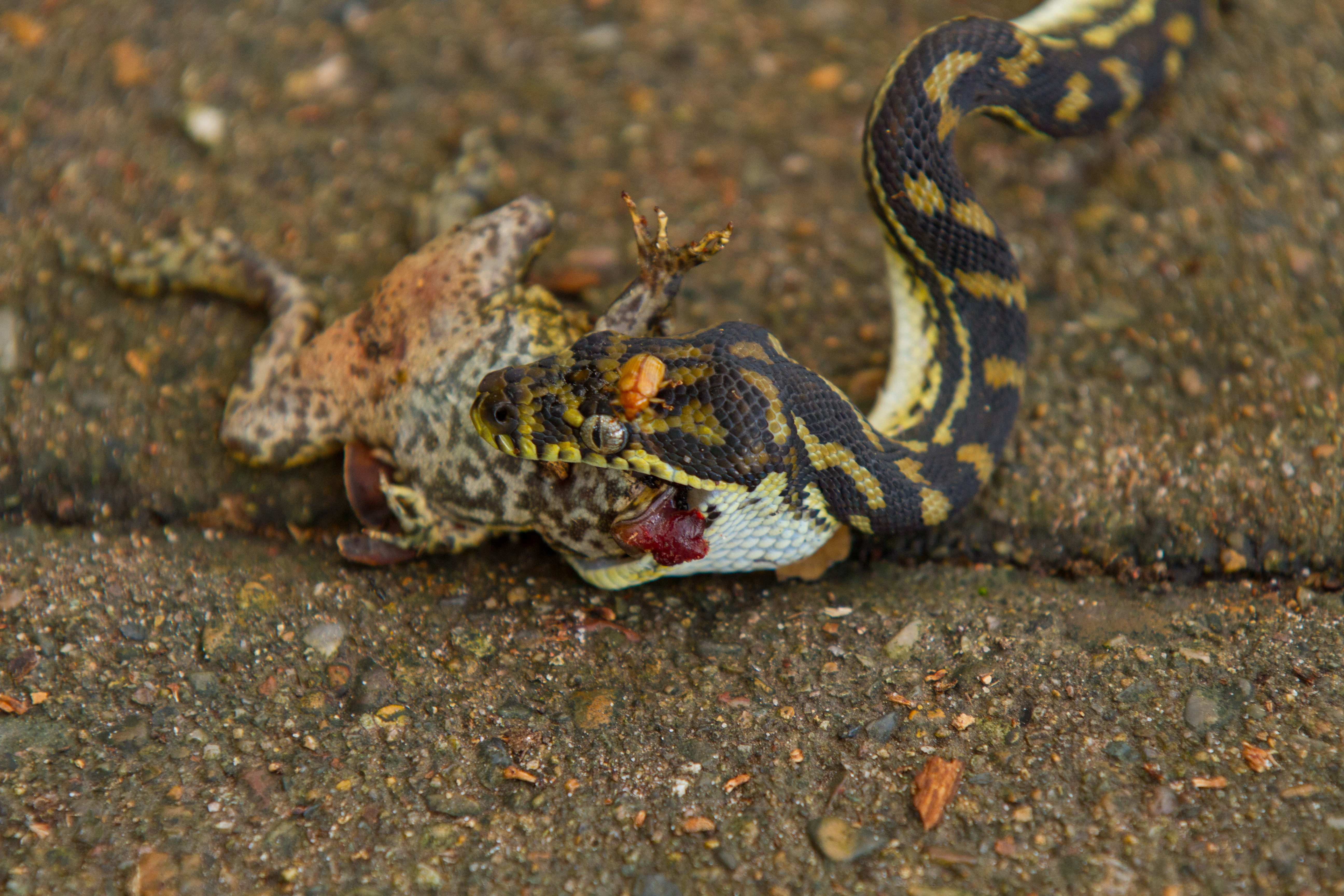 Effect of the Cane Toad on native Australian wildlife. This juvenile carpet snake has attempted to eat a small cane toad. The cane toad poison has instead killed the snake. Photographed in Brisbane Botanical Gardens, Queensland.